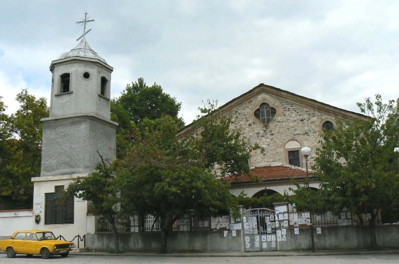 The church in village Brestovitsa, Bulgaria